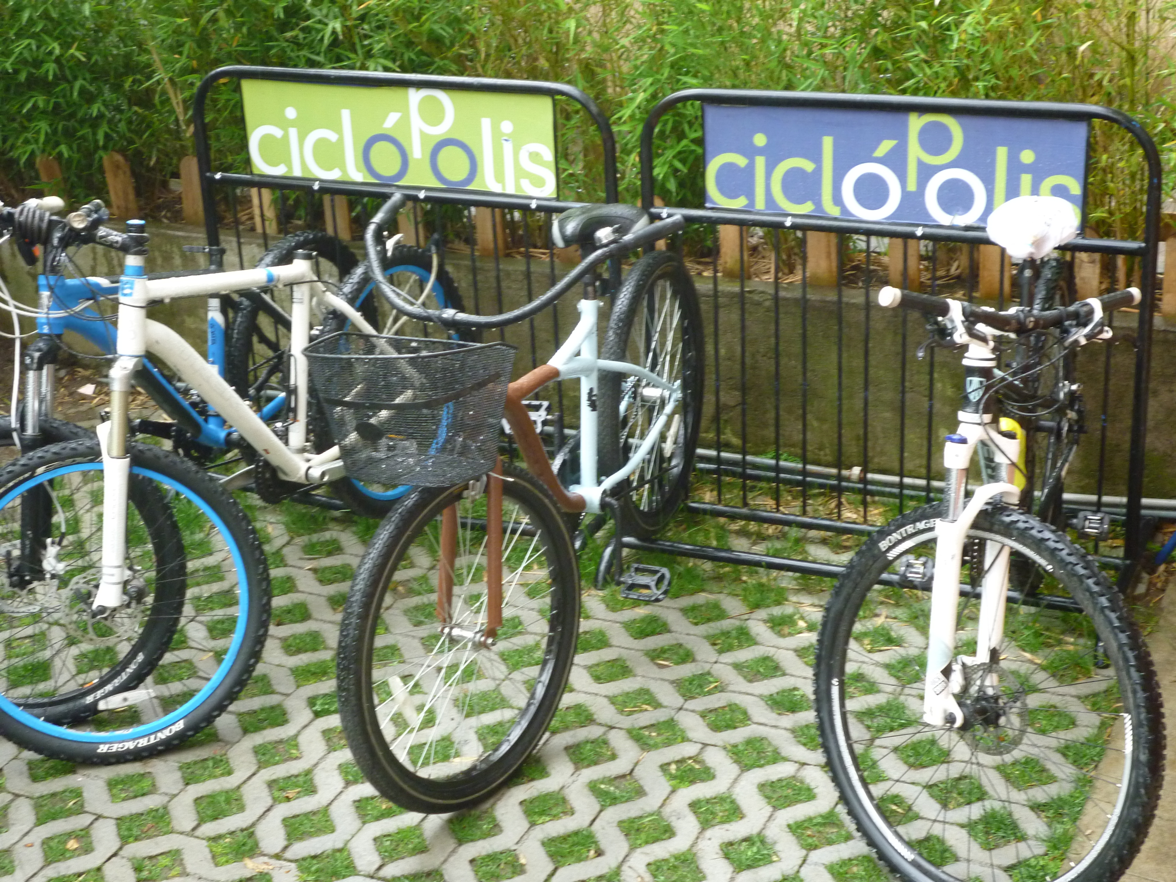 Ciclopaseo Bike Rack in Quito Ecuador